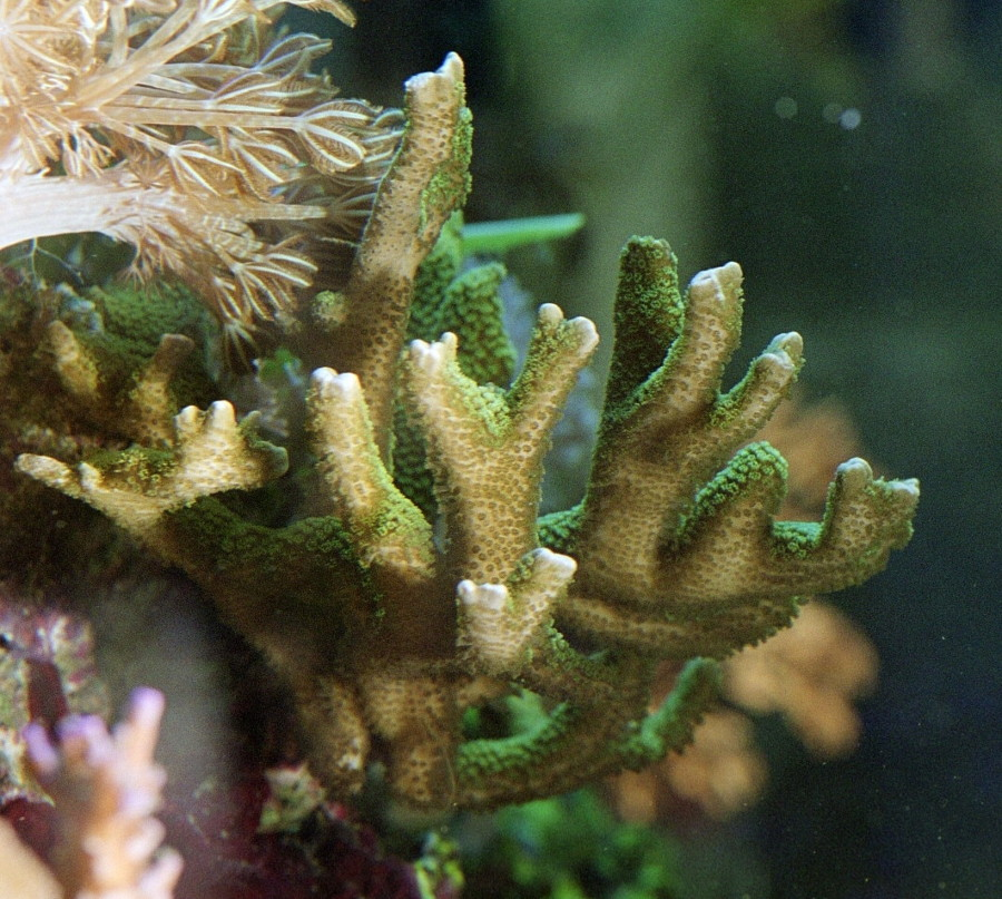 Montipora digitata My ownPhoto User:Haplochromis